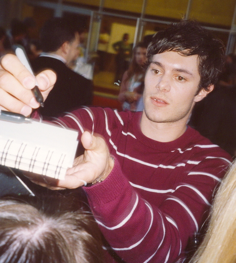 Photo of actor Adam Brody at the Toronto International Film Festival.